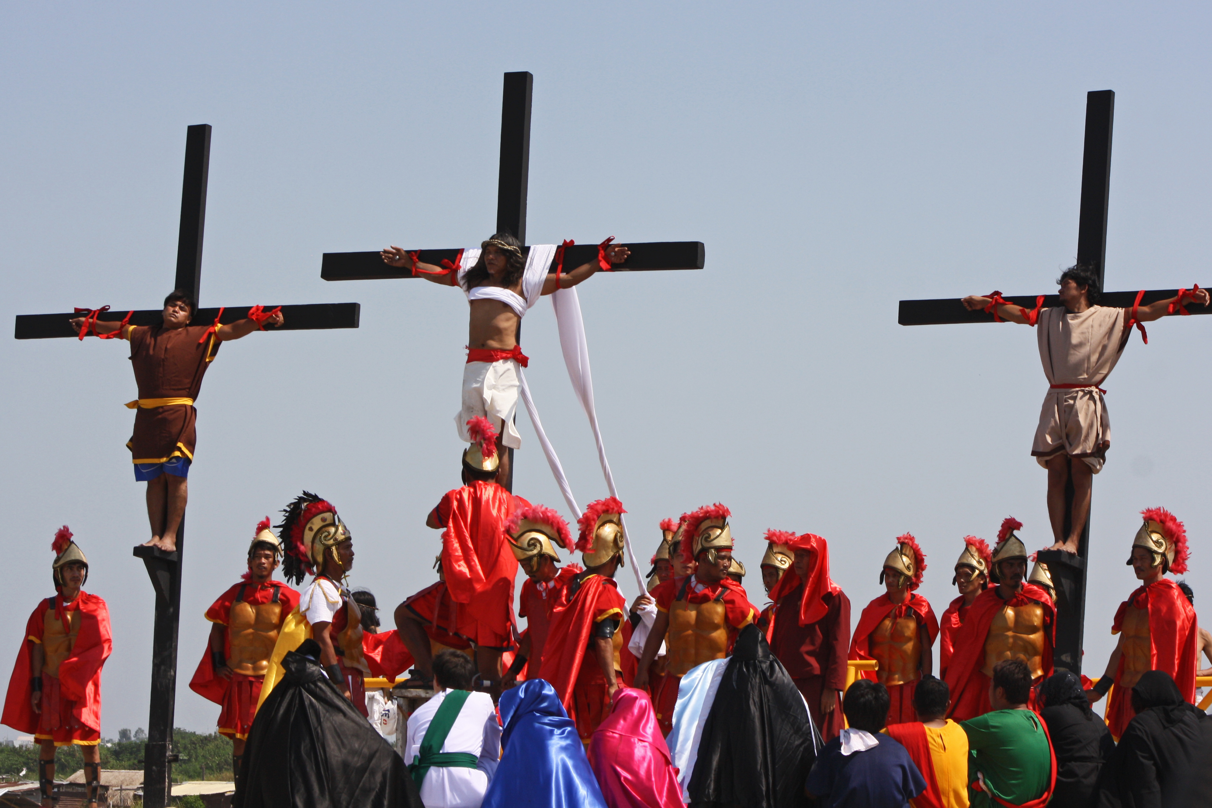 Good Friday observance in Barangay (barrio) San Pedro Cutud, in San Fernando, Pampanga, Philippines. During this annual tradition of faith of Kapampangan Catholic Devotees people remember the suffering and crucifixion of Jesus Christ. Although the modern Catholic church now discourages this act of hurting themselves, many penitents called "magdarame" carry wooden crosses, crawl on rough pavement, and slash their backs before whipping themselves to draw blood. This is done to ask for forgiveness of sins, to fulfill vows (panata), or to express gratitude for favors granted. The event also includes a reenactment of Christ's crucifixion. This part of the day featured 55-year-old Ruben “Mang Ben Kristo” Enaje, playing the role of Jesus Christ. This year is Mang Ben’s 25th year of crucifixion and according to him, this might be his last year and he is looking for the right person who will replace him despite the numbers of the potential candidates are many because he believe that the person must possess good characteristics and sincerity.